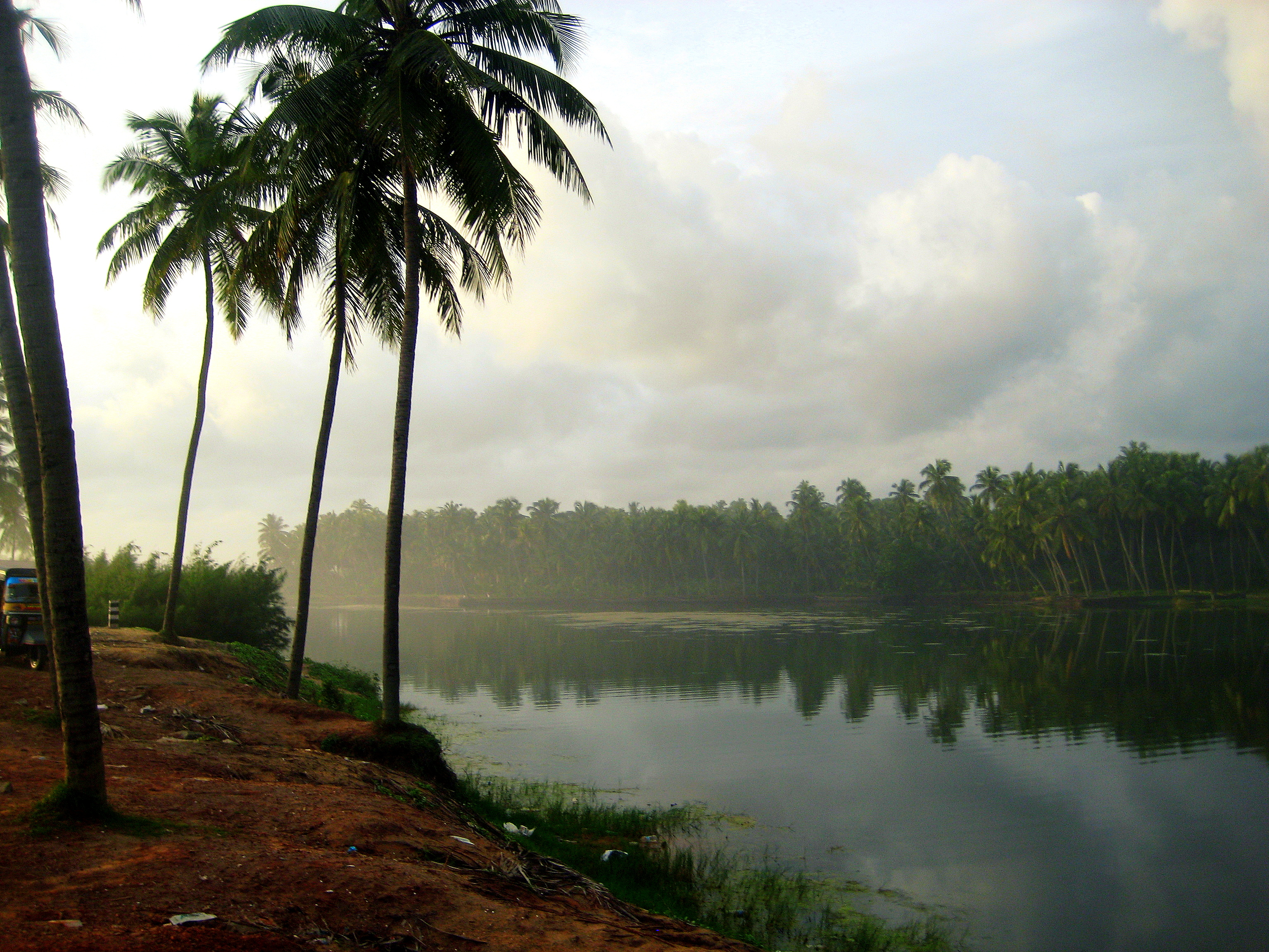 Paravur has two estuary. One is in Pozhikara and the other one in Thekkumbhagam.